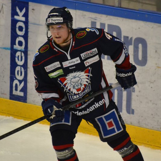 Linus Hulström of Linköpings HC during a SHL game.